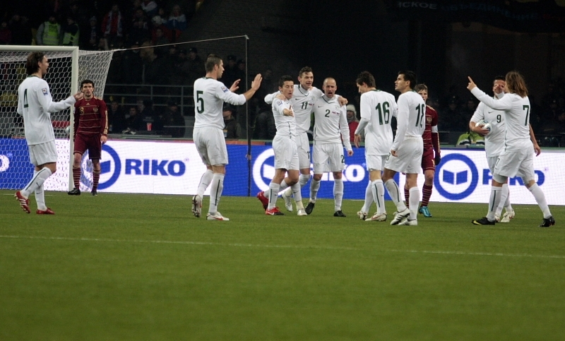 Russia vs Slovenia World Cup 2010 Qualification, 2009-11-14